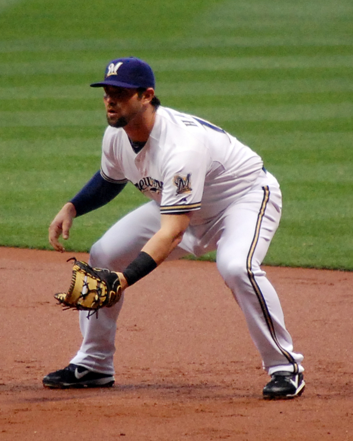 Sean Halton playing for the Milwaukee Brewers against the St. Louis Cardinals at Miller Park in Milwaukee, Wisconsin in 2013.